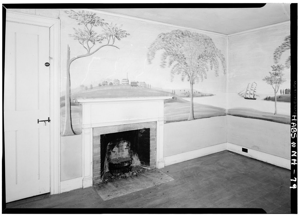 Rufus Porter mural - Kent House, Lyme. Note that the Kent House was called the Wittenborn-Wagner House when this photograph was taken. [1] This photograph] is from the Library of Congress online catalog, as indicated below. This image is in the public domain since it was produced by the United States Government as part of the Historic American Buildings Survey. The photographer was Aubrey P. Janion; the image was taken in August 1959. TITLE: Wittenborn-Wagner House, Rufus Porter Wall Paintings, River Road, Lyme vicinity, Grafton County, NH CALL NUMBER: HABS NH,5-LYM.V,2- REPRODUCTION NUMBER: [See Call Number] MEDIUM: Photo(s): 4 (5 x 7 in.) DATE: Documentation compiled after 1933. RELATED NAME(S): Porter, Rufus Overby, Osmund R., historian Edwards, Henry C., historian Janion, Aubrey P., photographer NOTE: Survey number HABS NH-79 Building/structure dates: 1825 initial construction SUBJECTS: NEW HAMPSHIRE--Grafton County--Lyme vicinity paintings COLLECTION: Historic American Buildings Survey (Library of Congress) REPOSITORY: Library of Congress, Prints and Photograph Division, Washington, D.C. 20540 USA CARD #: NH0036